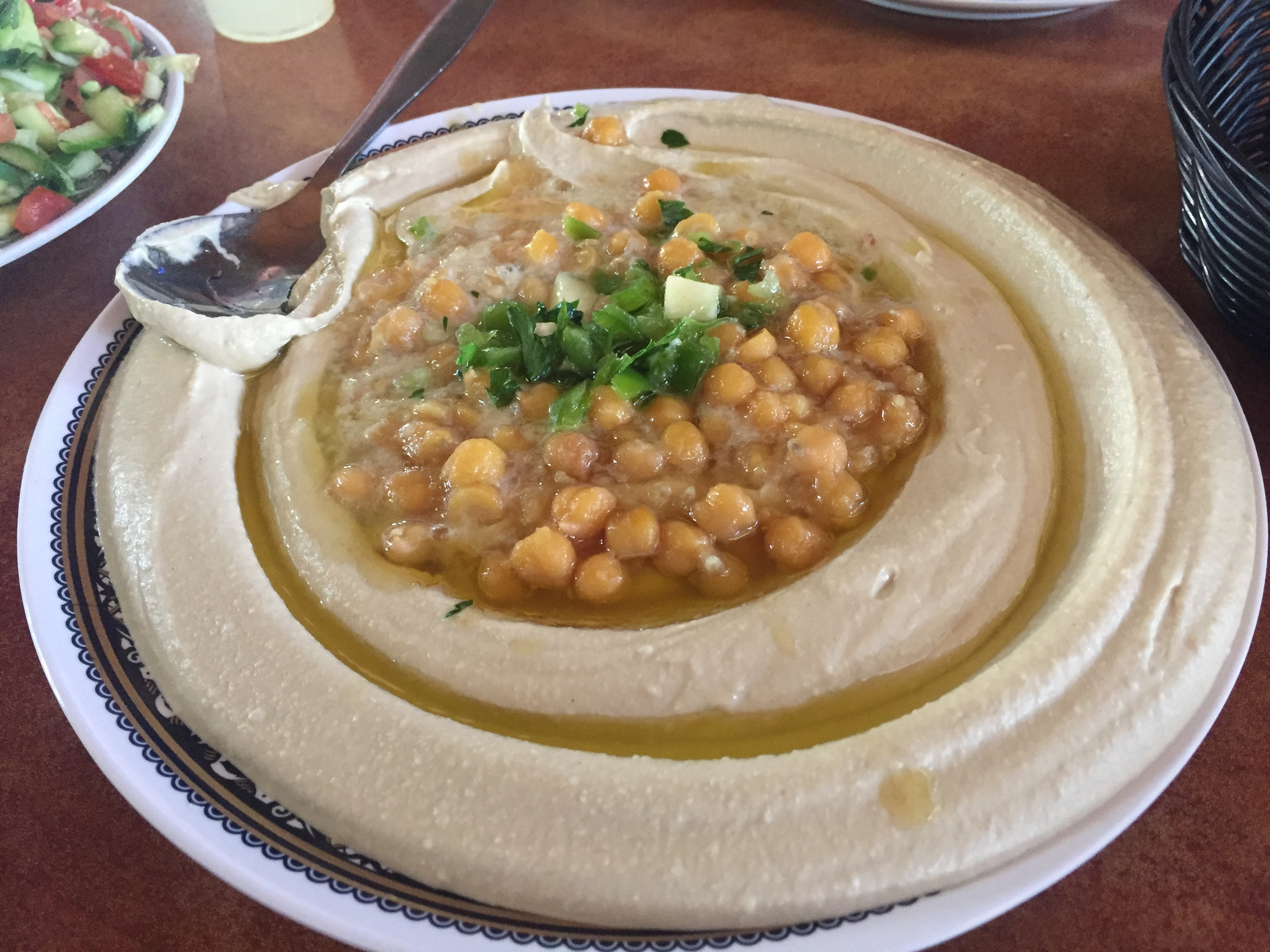 Hummus in Israel is not a side dish or Mezze it`s the main dish and meal.